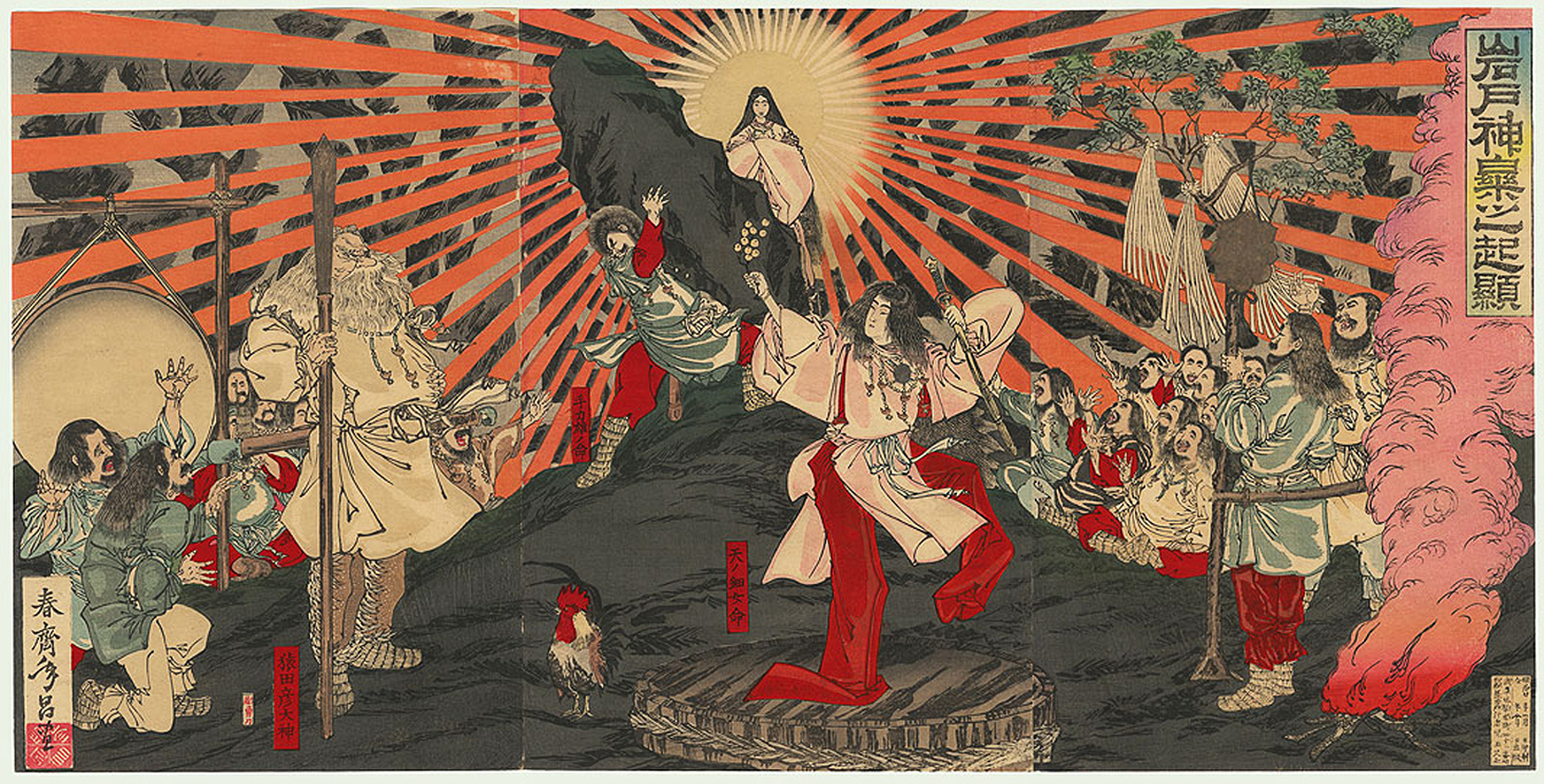 An image of the Japanese Sun Goddess Amaterasu emerging from a cave. 19th century. Signed: ’Shunsai Toshimasa’ (春斎年昌), title: ’Iwato kagura no kigen’ (岩戸神楽之起顕) - ’Origin of Music and Dance at the Rock Door’, Woodblock print (nishiki-e); ink and color on paper